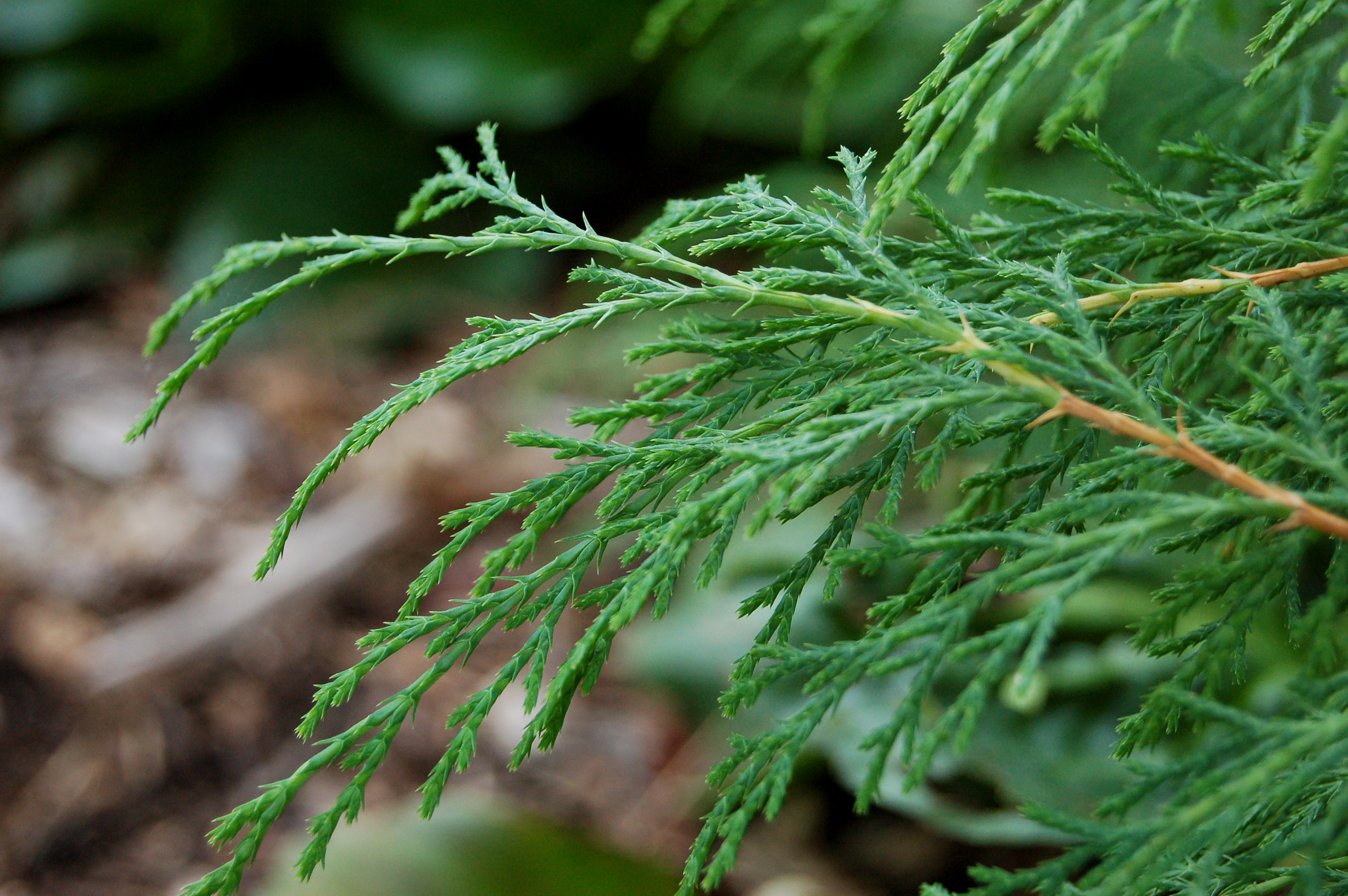 Photograph of the leaves of the Microbiota (Microbiota decussata). Photo taken at the Tyler Arboretum where it was identified.